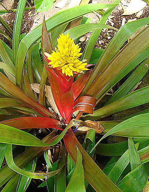 Native to Costa Rica. Photo from the UC Berkeley Botanical Gardens. In context at